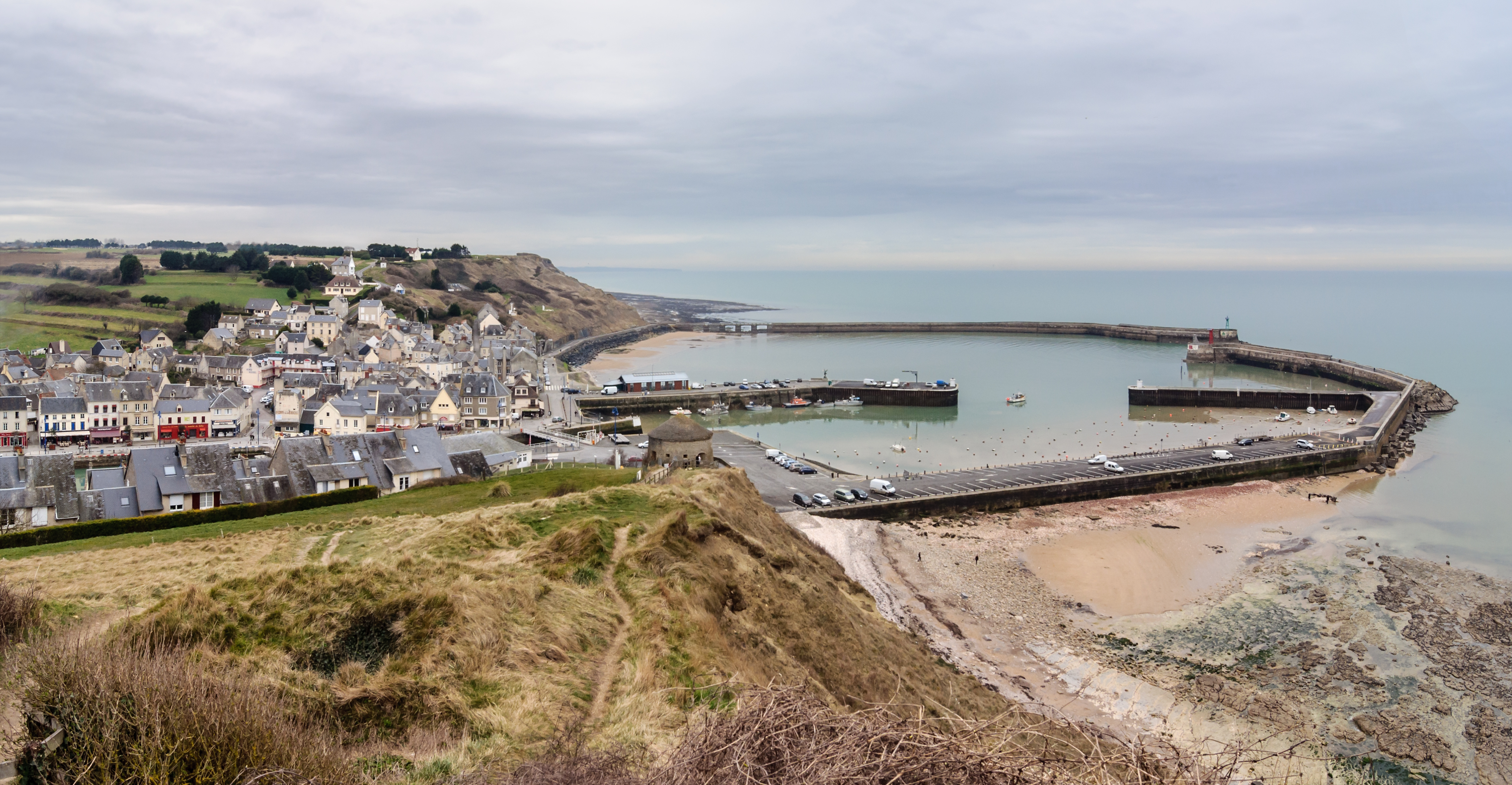 Port-en-Bessin-Huppain, seen from above the Vauban Tower (Calvados, Basse-Normandie, France)